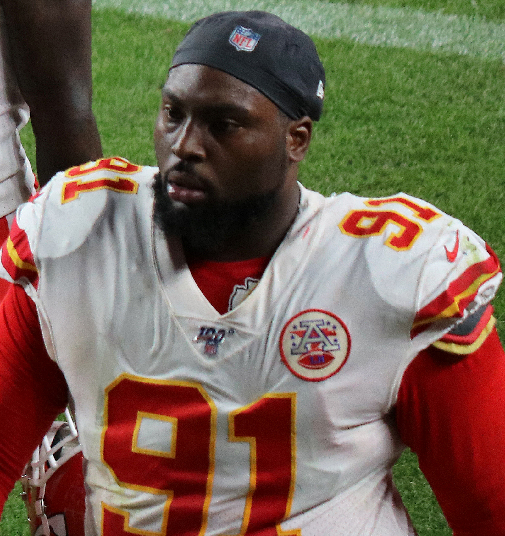 Derrick Nnadi, A National Football League player.